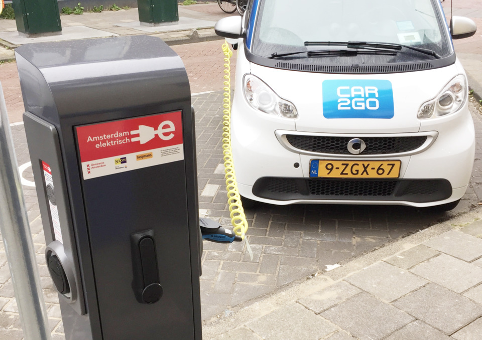 EV-Box Charging Station in Amsterdam. Powered in partnership with Nuon, Heijmans and Amsterdam City.